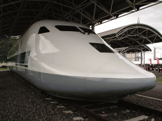 The Cusp Side Control Car (955-1) of Shinkansen 955 (300X)